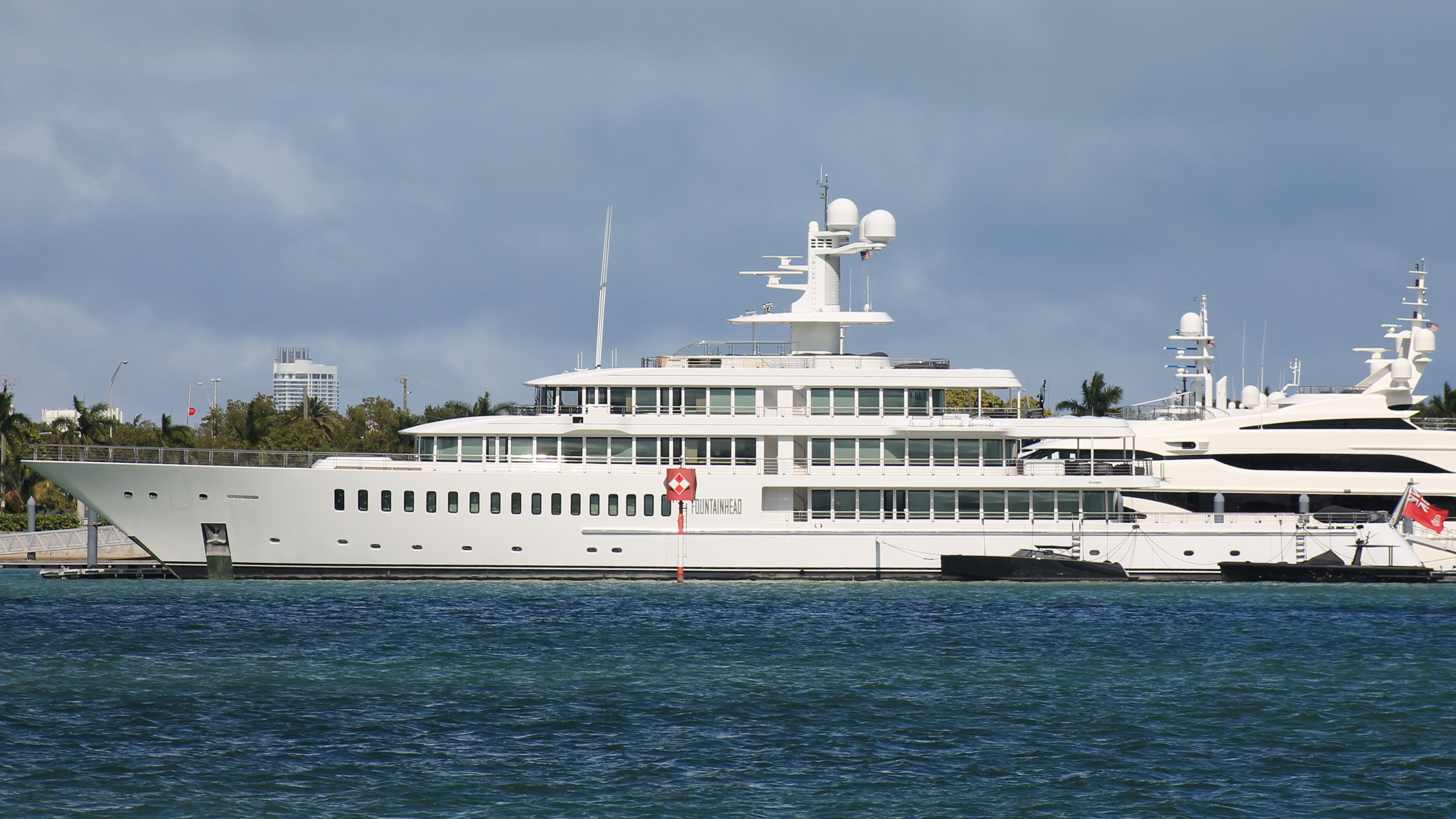 Superyacht Fountainhead in Miami, 20 March 2019.